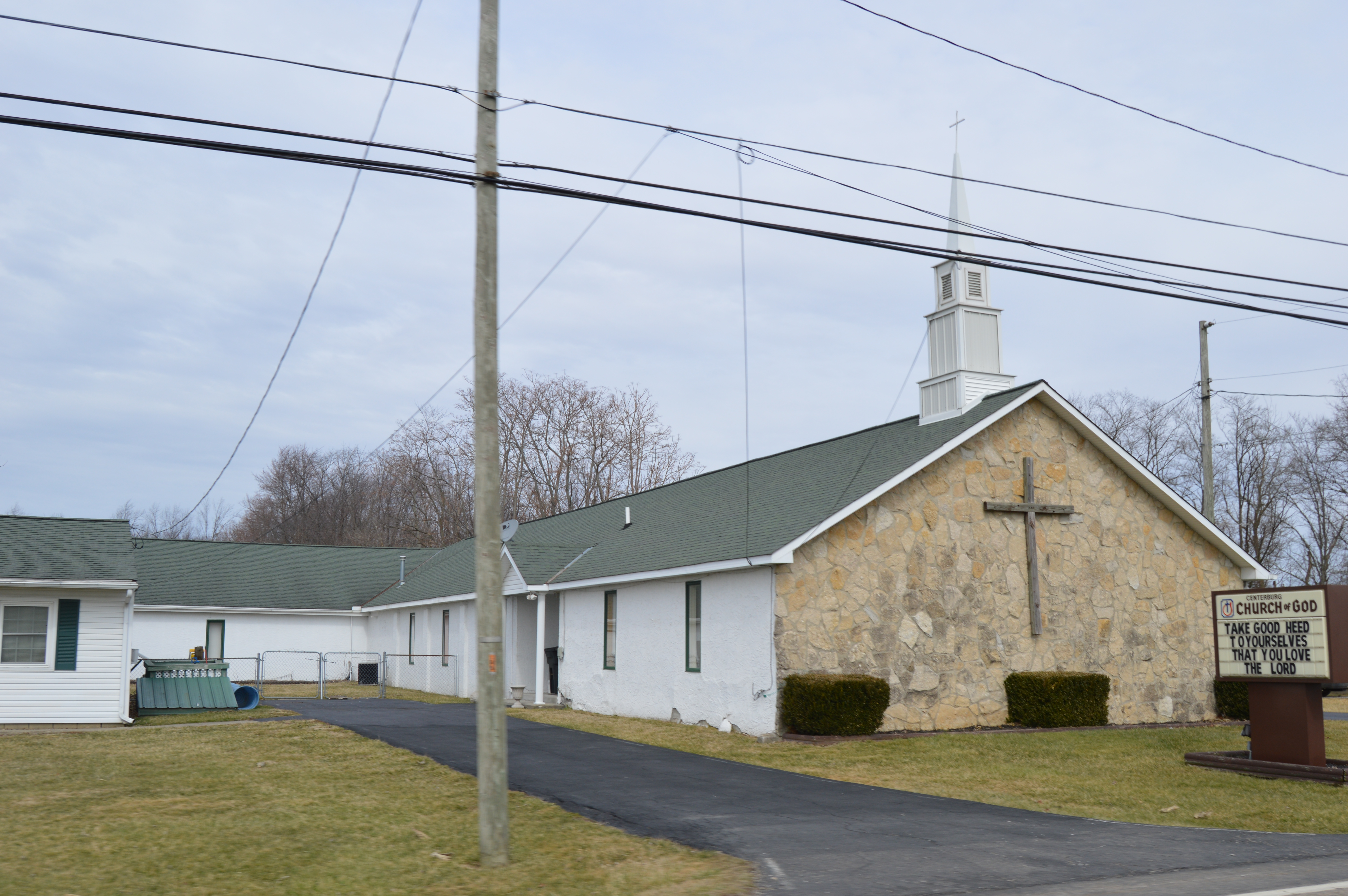 Front and southwestern side of the Centerburg Church of God, located at 4697 State Route 3 just northeast of Centerburg in Hilliar Township, Knox County, Ohio, United States. It was built in 1959.